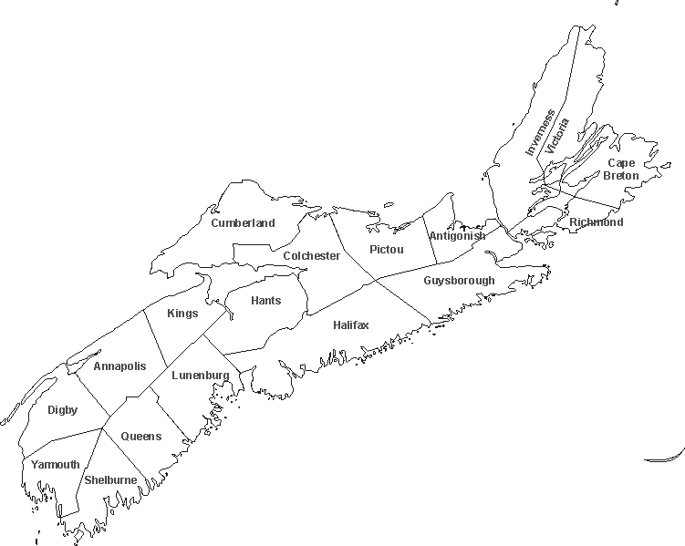 Public domain map of Nova Scotia with data courtesy of Government of Nova Scotia. This locator map image could be recreated using vector graphics as an SVG file. This has several advantages; see Commons:Media for cleanup for more information. If an SVG form of this image is available, please upload it and afterwards replace this template with vector version available|new image name .